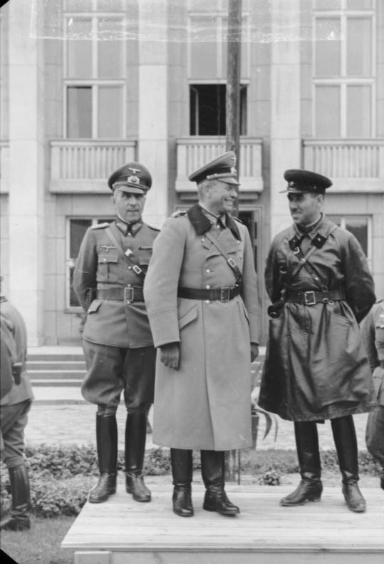 Poland, Brześć Litewski [Brest-Litovsk] (today Brest in Belarus). German-Soviet victory parade; personnel, from left to right: Major General Mauritz von Wiktorin, General of Panzer Troops [(Lt. Gen.)] Heinz Guderian and Brigadier General Semyon Krivoshein. Same image, but of lower quality, was found in Warsaw Mechanical Documentation Archive, labeled as first published in Soviet Union by TASS in 1939 (as a part of newsreel). See also cropped image at File:Armia Czerwona,Wehrmacht 22.09.1939 wspólna parada.jpg.